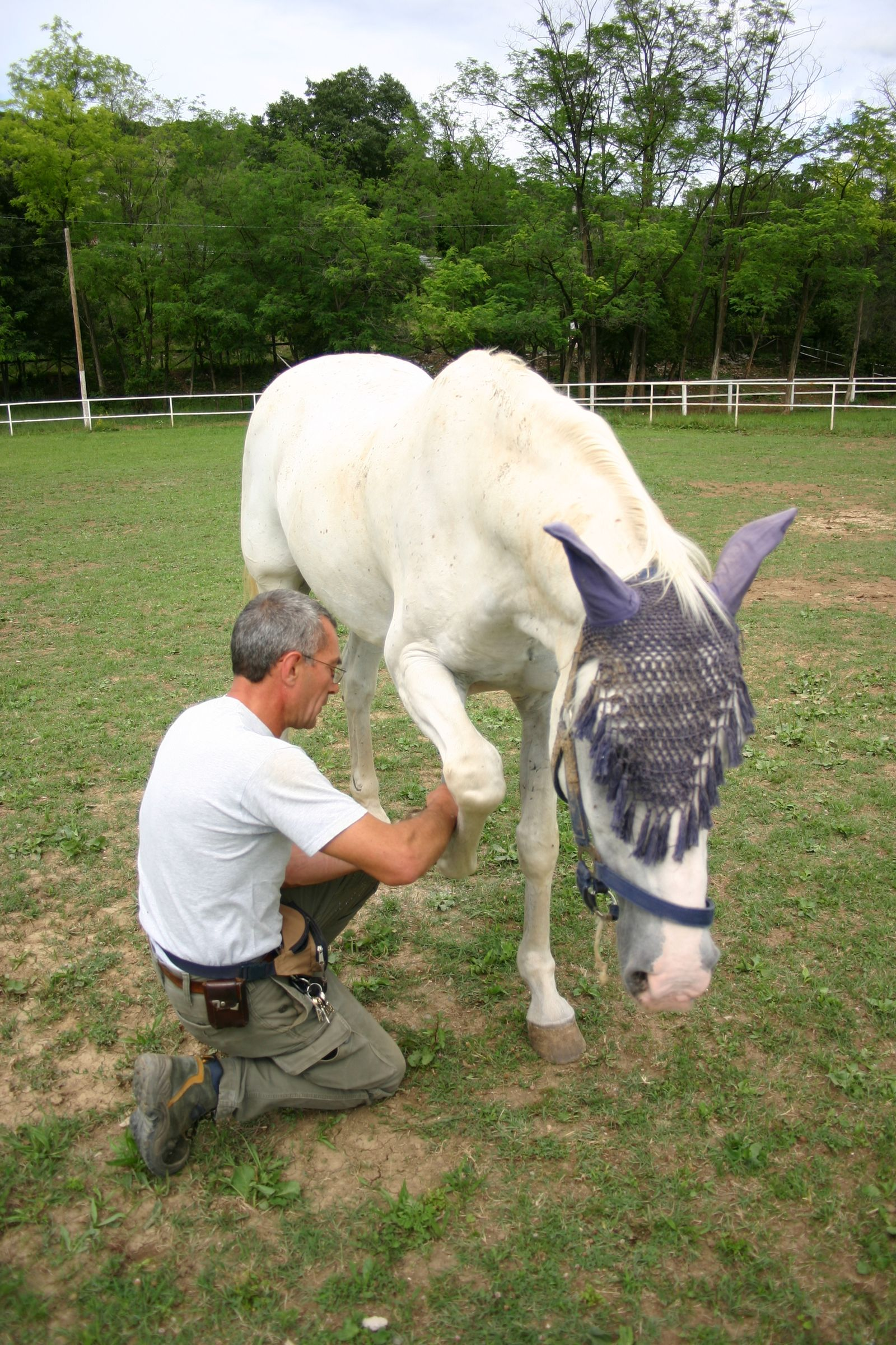 A barefoot horse is trimmed when free in the pasture after some natural communication